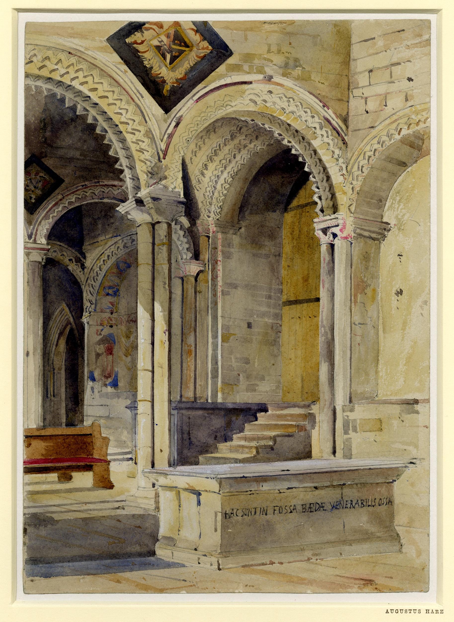 Bede's Tomb, Durham Cathedral, watercolour by the English writer Augustus Hare. Hare may have created the illustration for his book "Handbook for Travellers in Northumberland and Durham," published in 1863, which he wrote as well as illustrated. Courtesy of the British Museum, London.